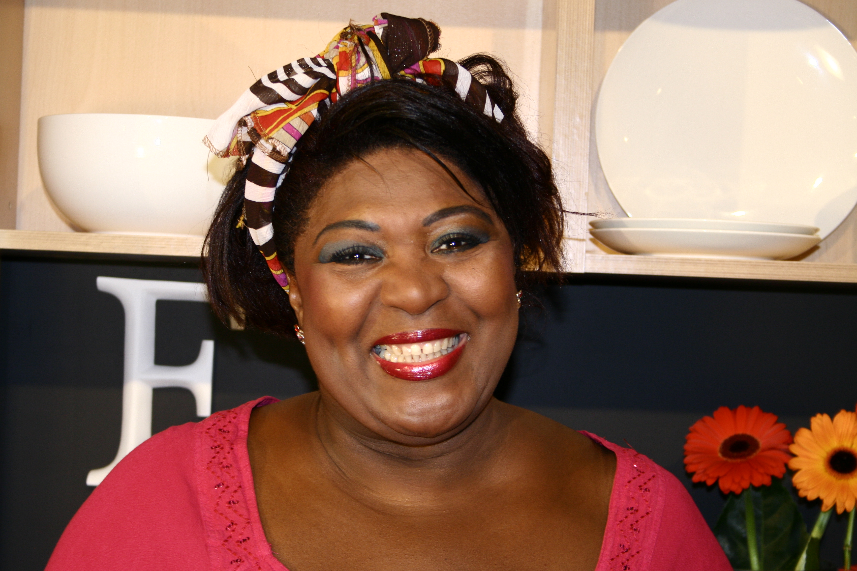 Rustie Lee head shot